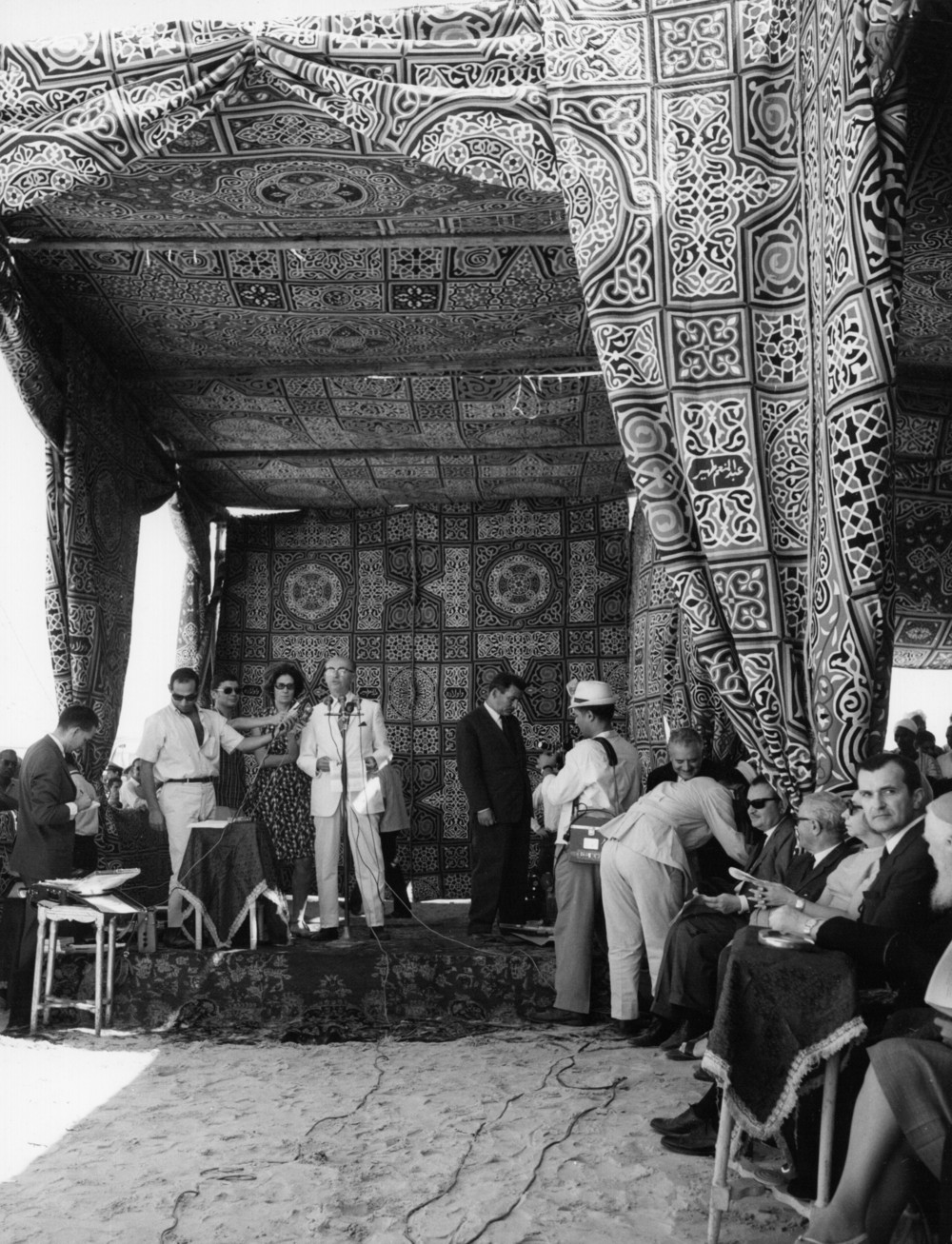 Abu - Simbel - Inauguration ceremony to mark the completion of removal and reconstruction of the Abu Simbel Temples on their new site. The international Campaign for the saving of the Nubian monuments was launched by Unesco in 1960. Here, Mr René Maheu, Director - General of the Unesco during his speech. In the foreground, from right to left : His Eminence the Cardinal Tisserant, Doyen of the Sacred College; Mr. Yvon Bourges, Secretary of State for Foreign Affairs.